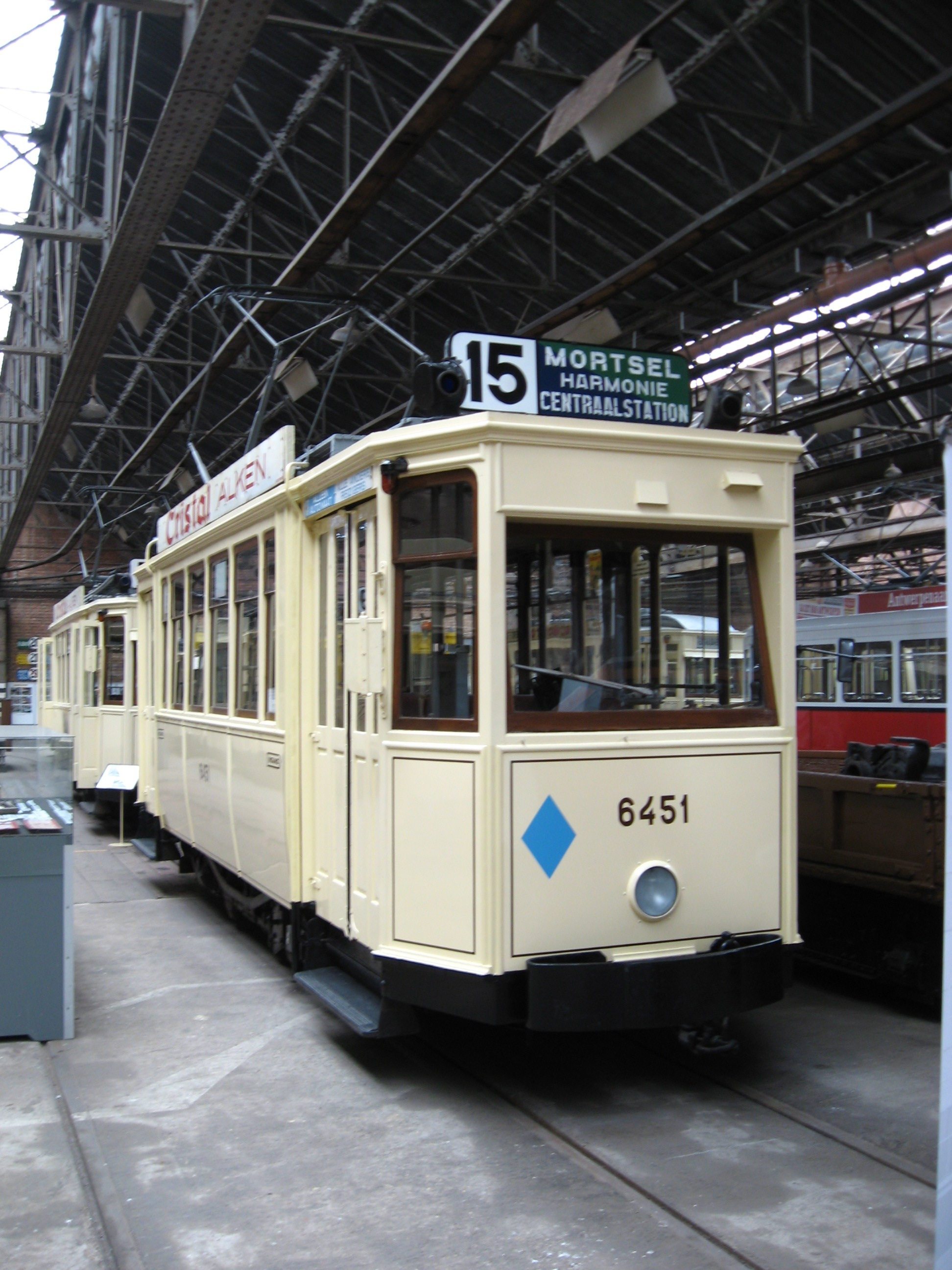 Old MIVA citytram of Antwerp in museum